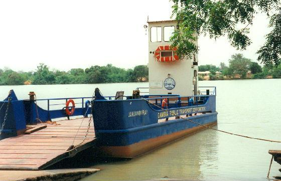 Georgetown, ferry boat, on Mc Cartney Island